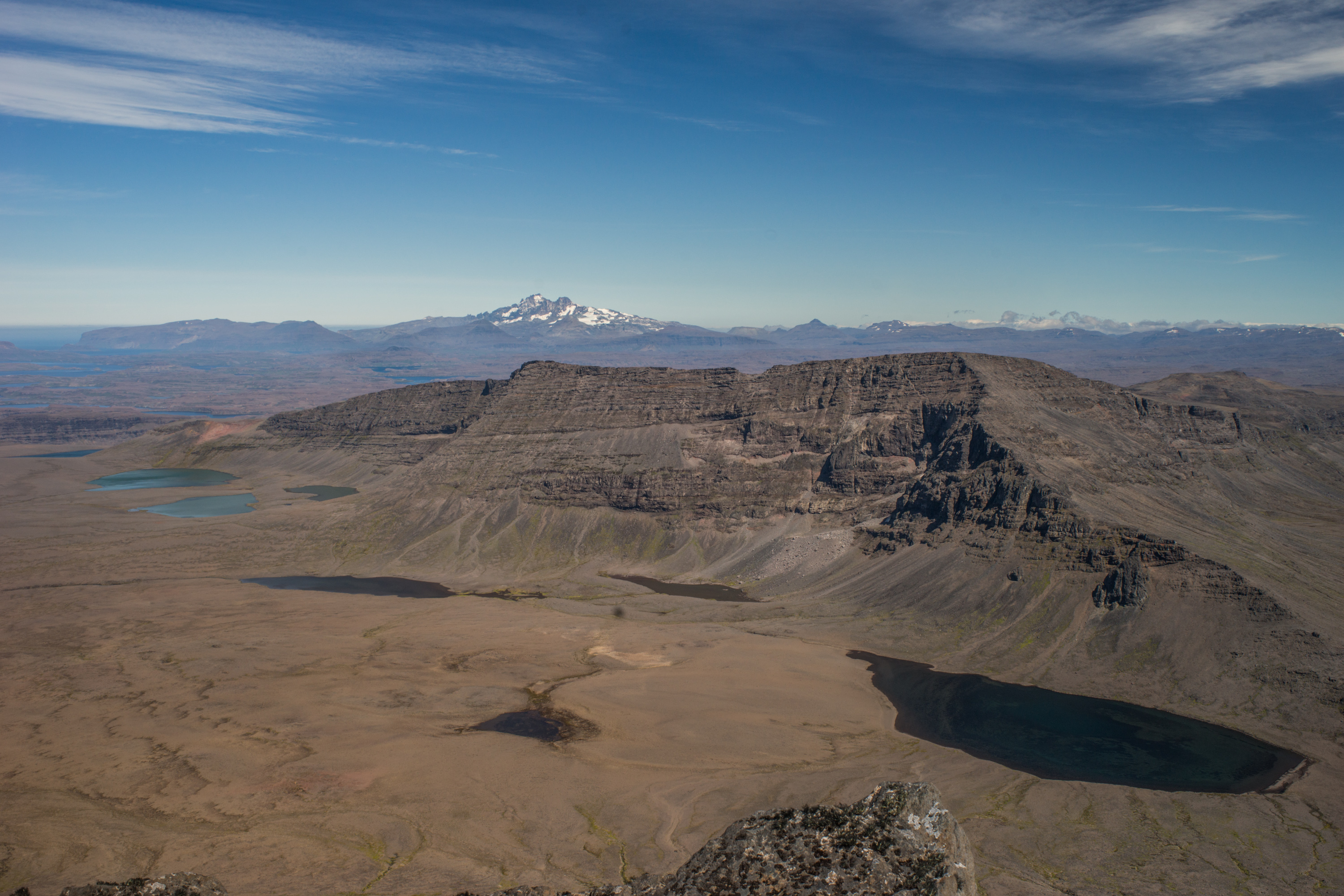 Mount Werth (908 m or 2,979 ft), Grande Terre, Kerguelen Archipelago. View from Crozier Mountain with Mount Ross in the background.